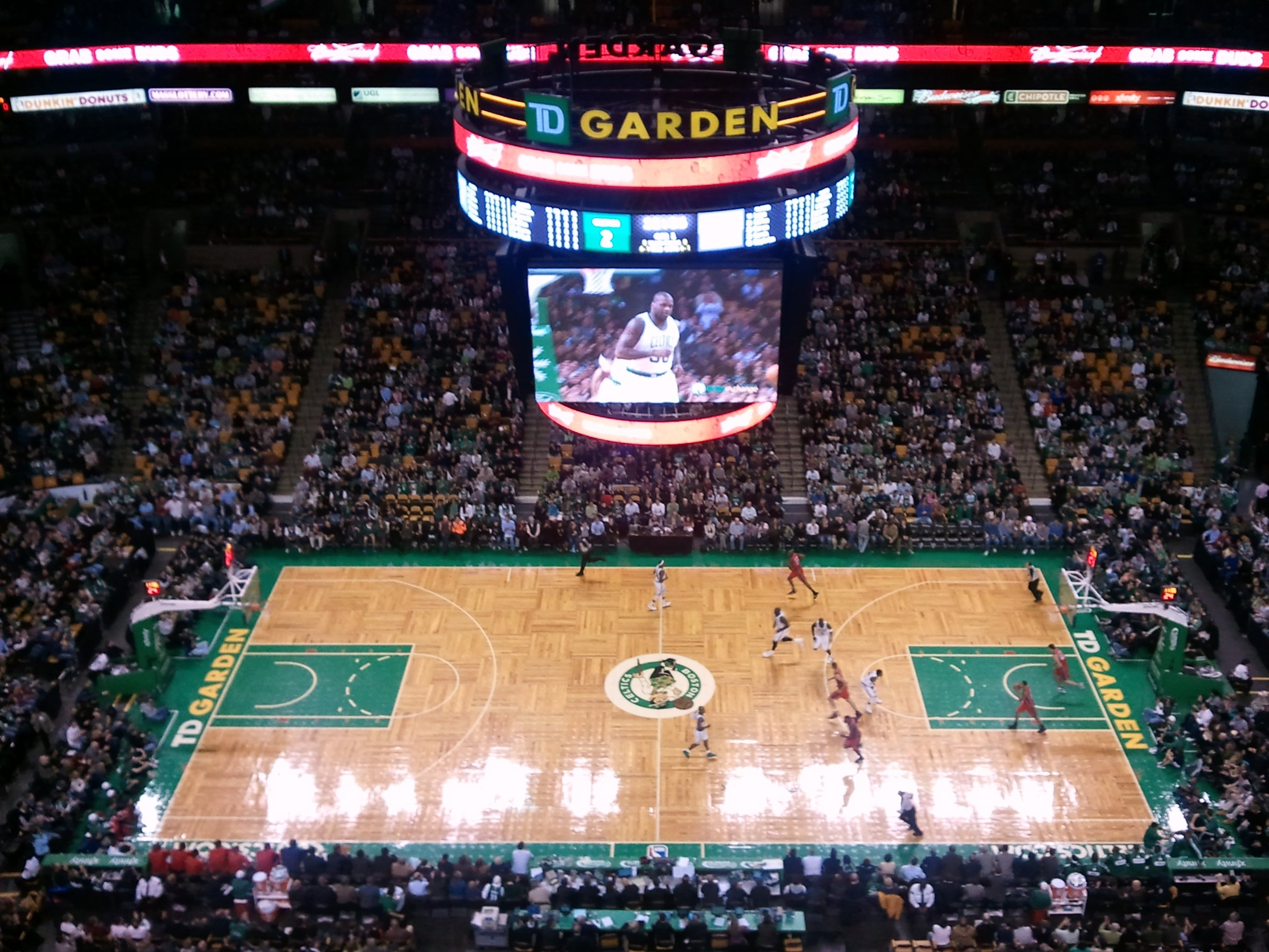 shot from near the half court line up on the press level, edited to straighten original was slightly askew